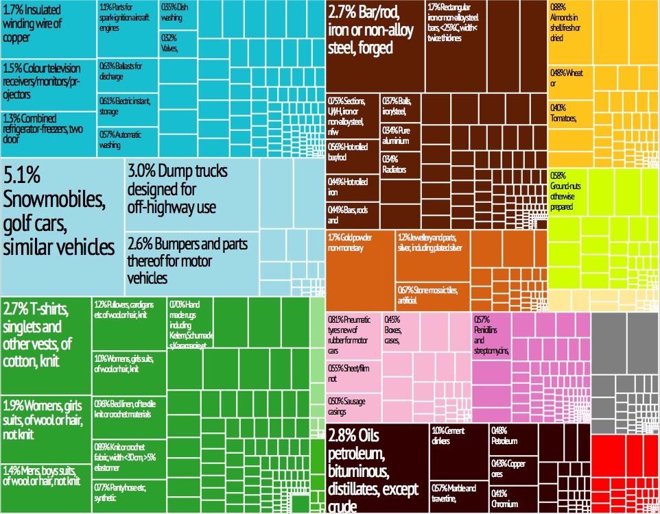 Turkey Export Treemap from MIT Harvard Economic Complexity Observatory